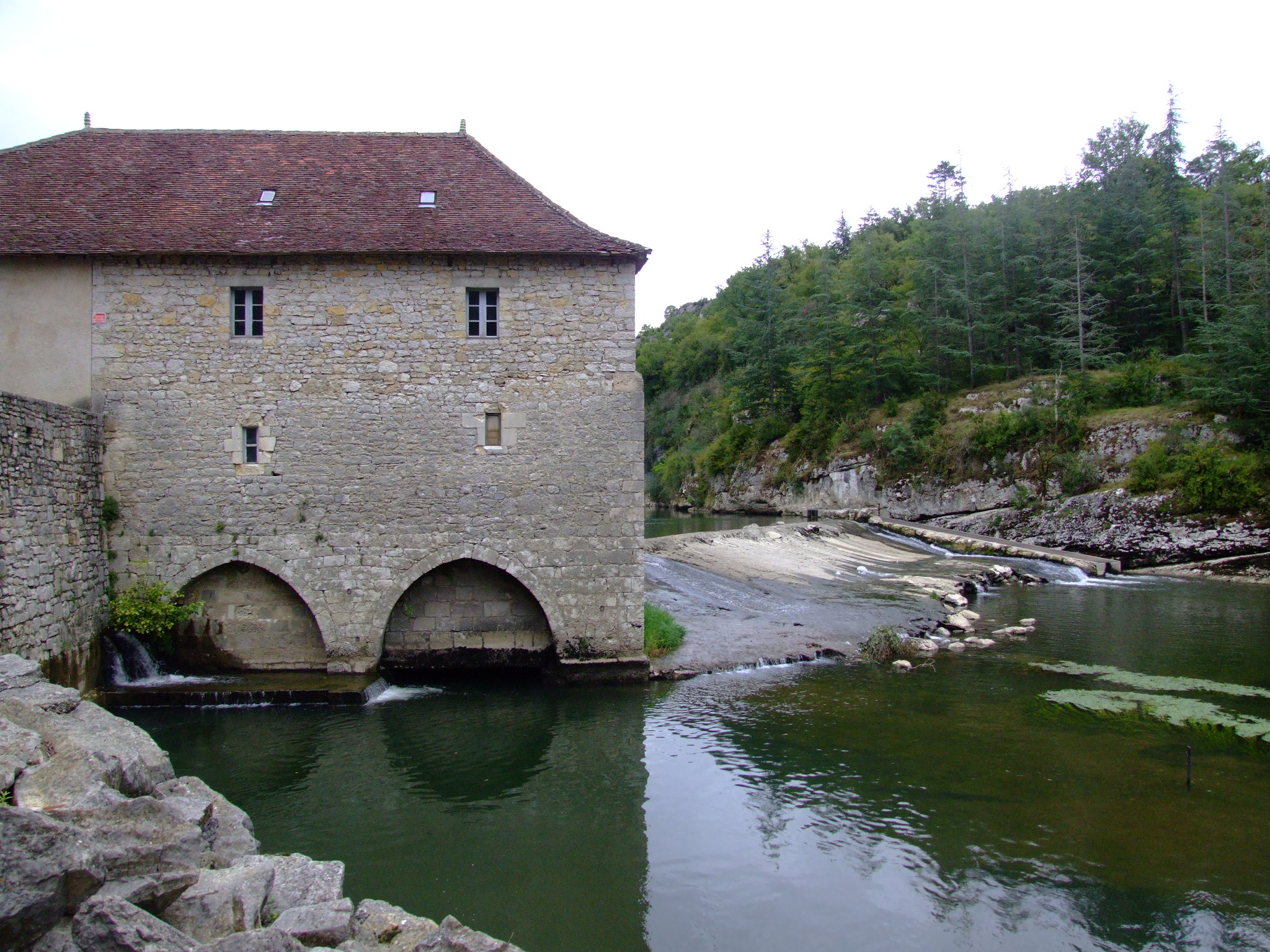 Cabrerets (Lot), France, lies at the confluence of the rivers Sagne and Célé, at the foot of the Rochecourbe cliffs.. The Mill on the Célé from downstream. - OpenStreetMap(Info)